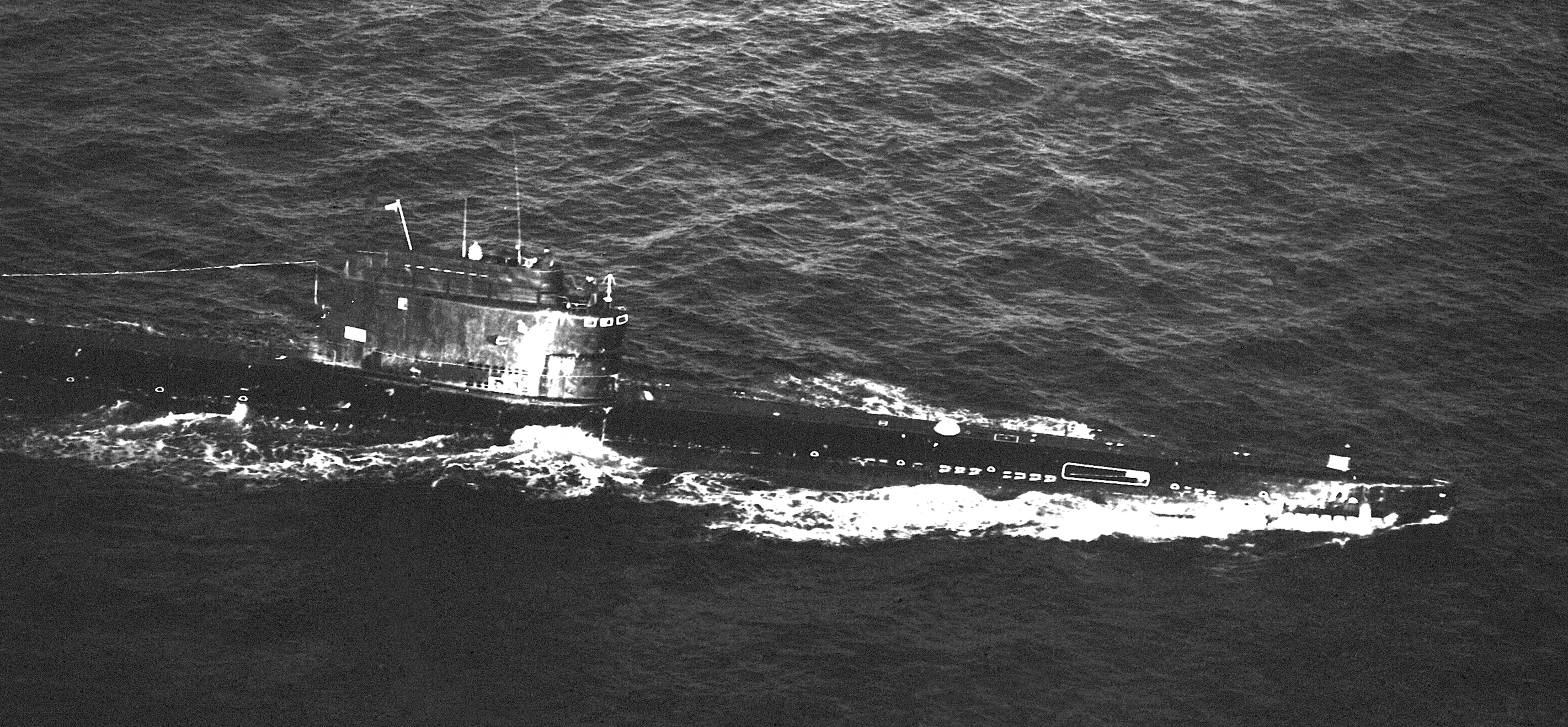 A starboard view of a Soviet Mod Zulu IV class patrol submarine underway. Shot 1988